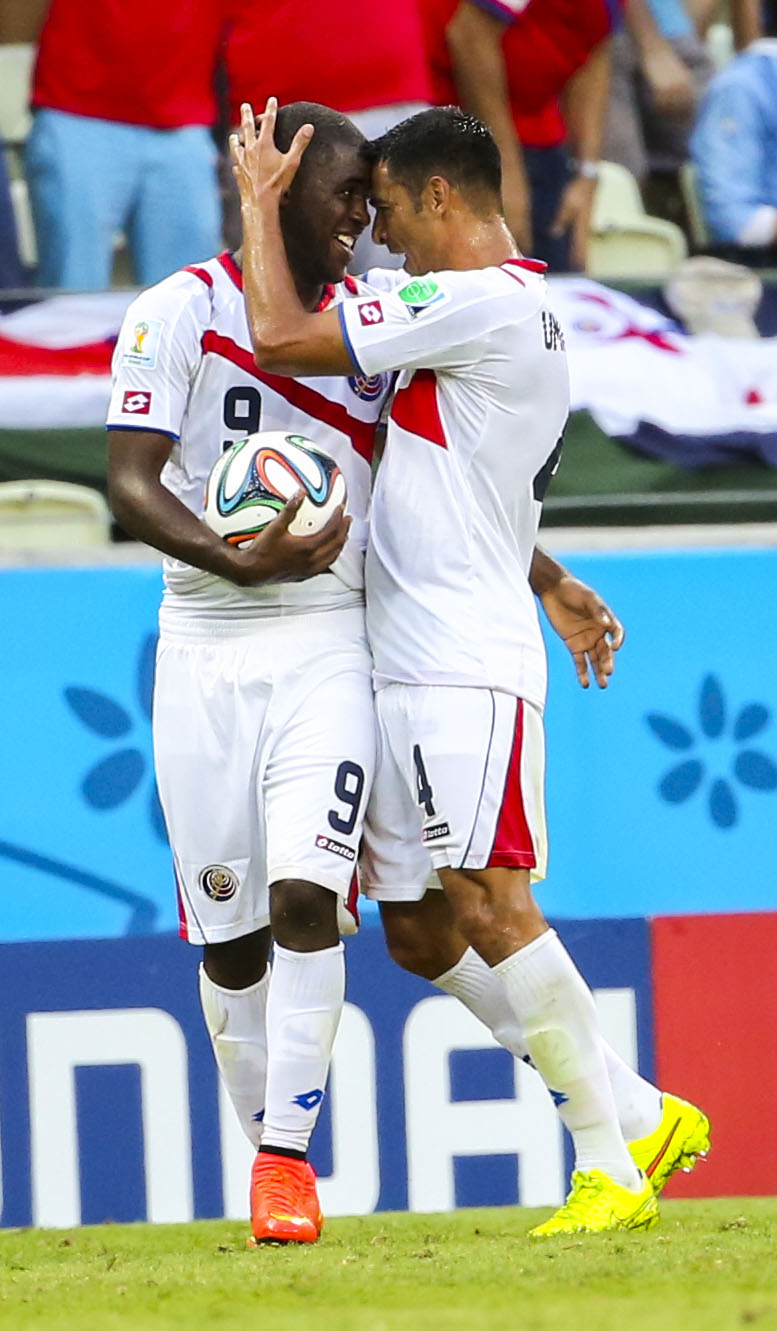 Uruguay and Costa Rica match at the FIFA World Cup 2014-06-14